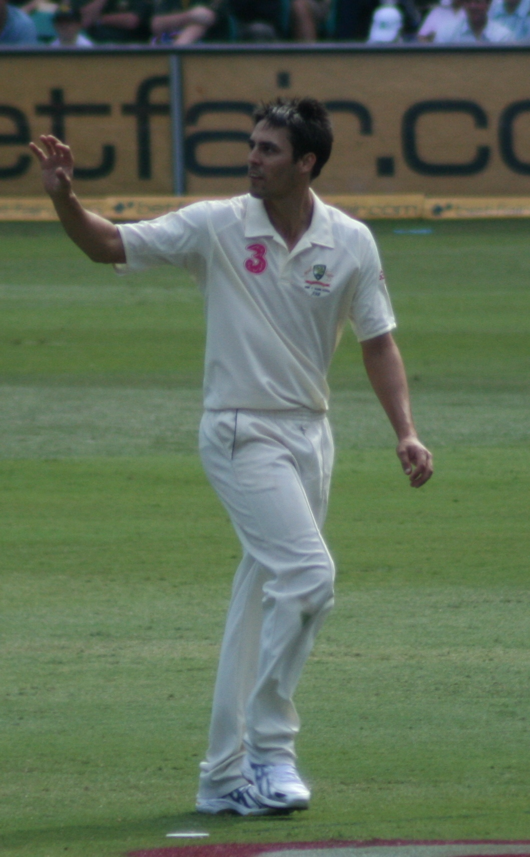 A cricket shot from Privatemusings, taken at the third day of the SCG Test between Australia and South Africa.